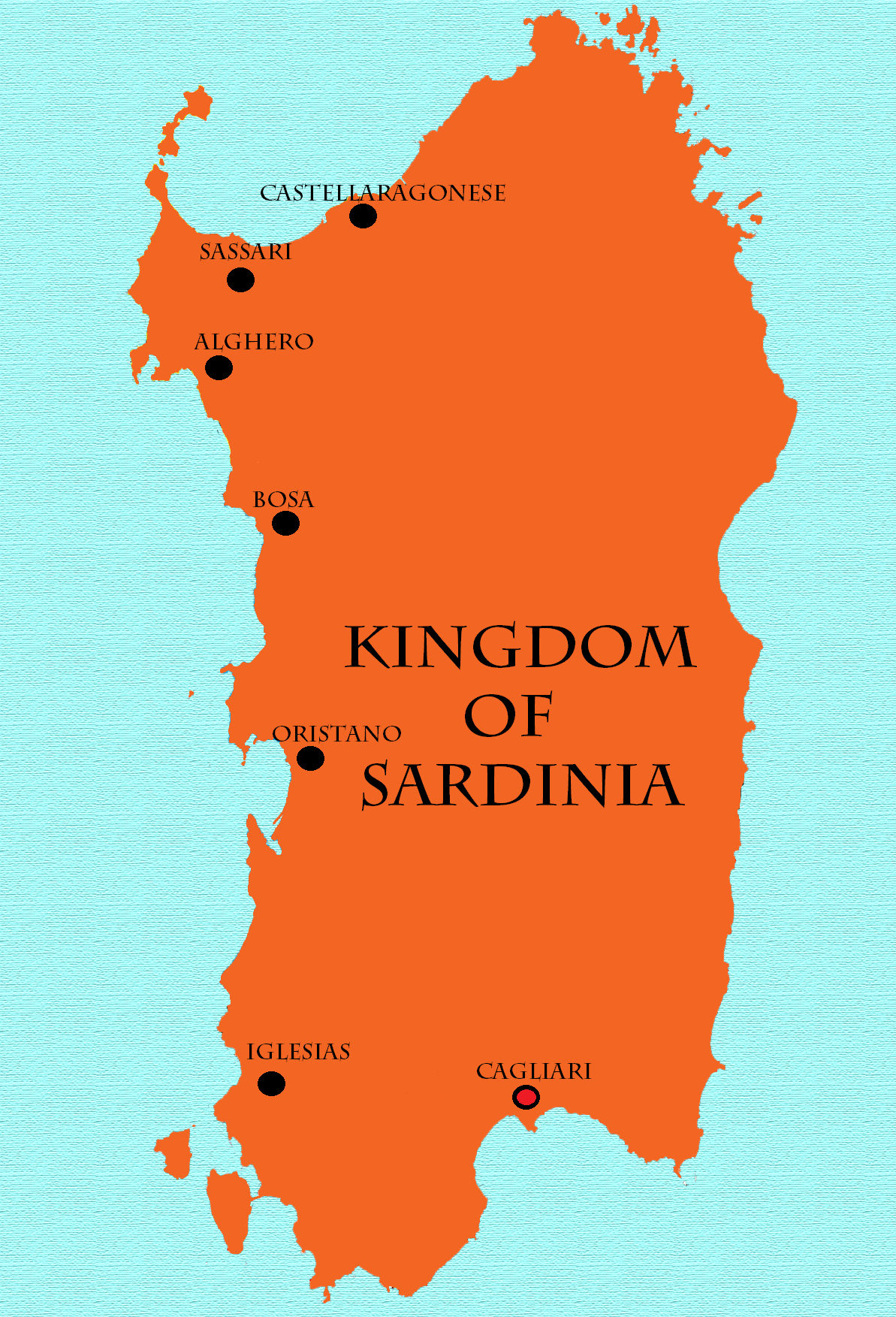 Map of the Kingdom of Sardinia in the 16th century . Informations taken from : Francesco Cesare Casula - La Storia di Sardegna , 1994 pg.420